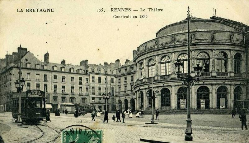 Tramway Electrique de Rennes